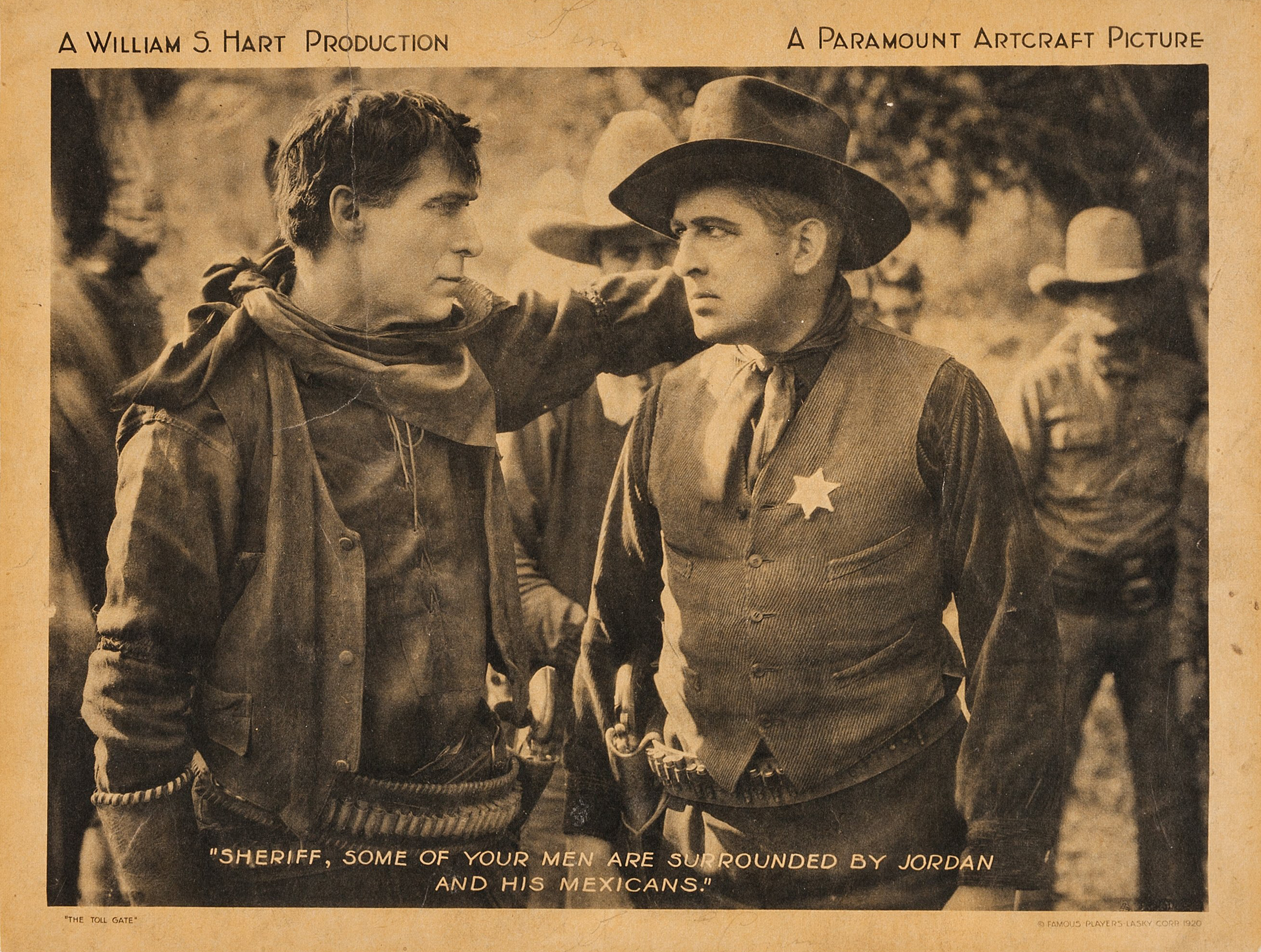 Lobby card for the 1920 film The Toll Gate with William S. Hart and Jack Richardson